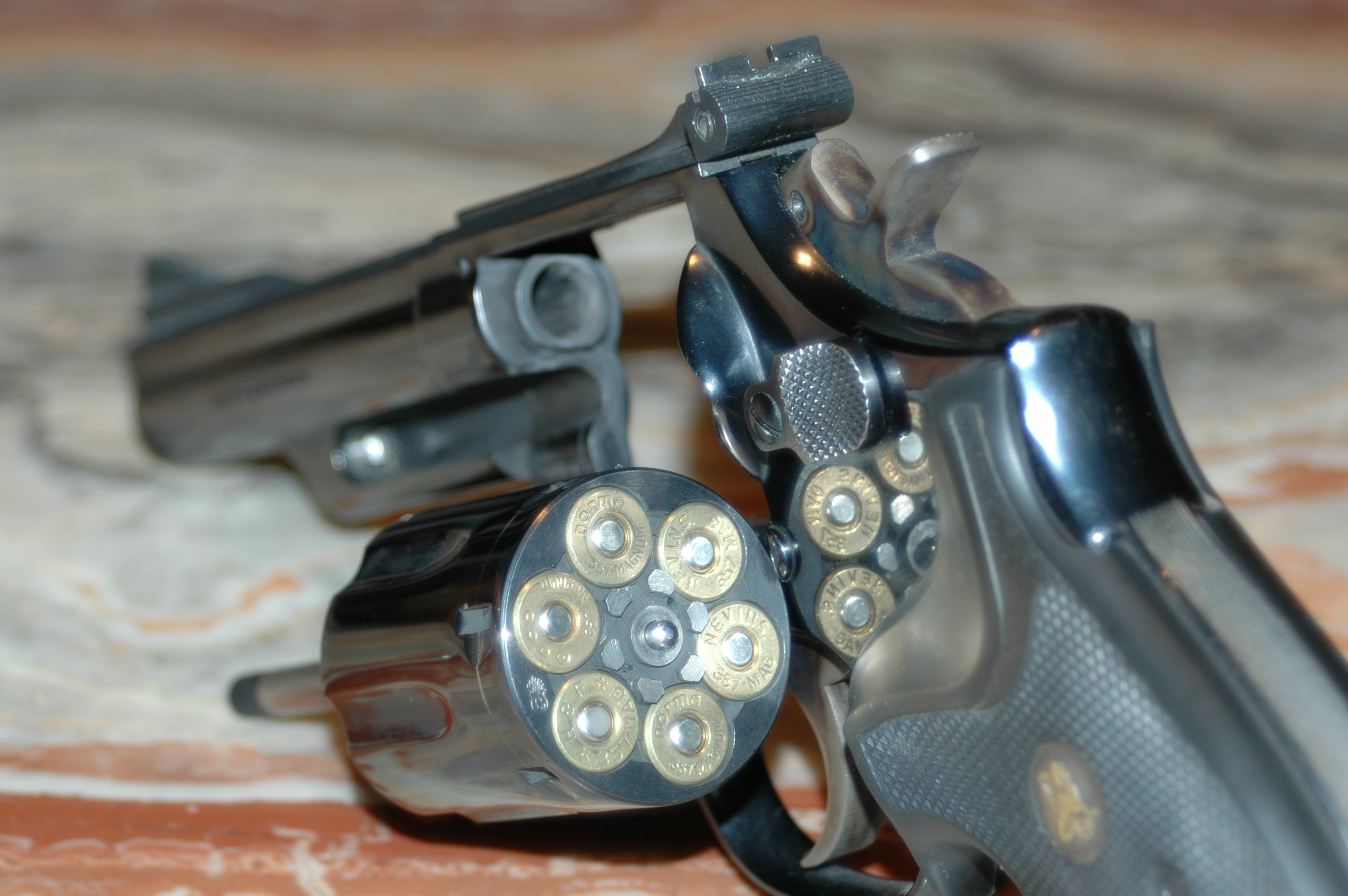 Smith&Wesson Model 19 and its cilinder open. Flickr original description: It's only now that I realize how dirty that gun actually is! It's not the best picture I could take, but I got bored on a Thursday evening. I use this firearm to practice precision shooting at targets 25m away.